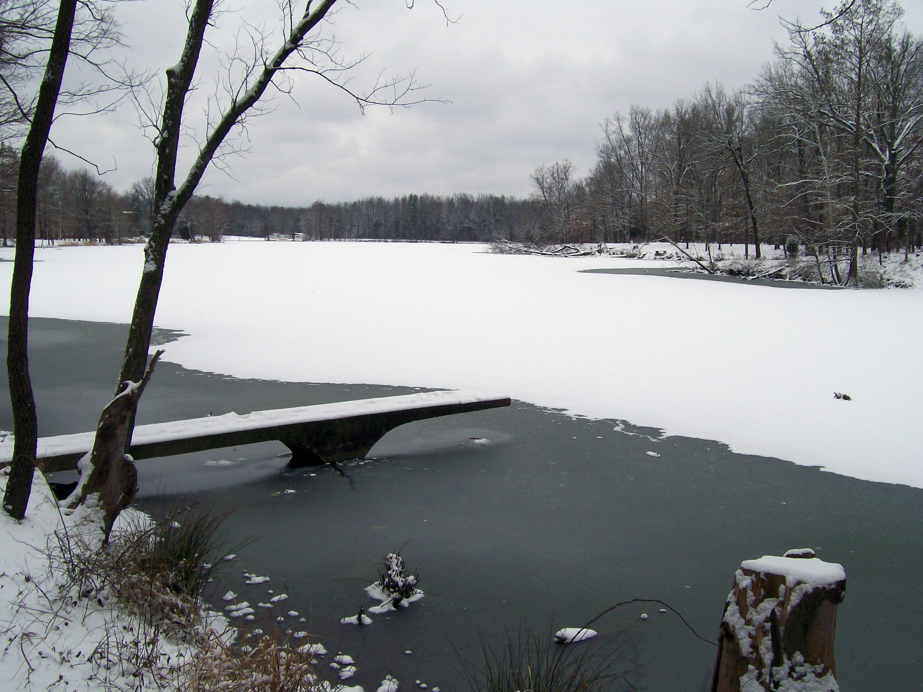 Luke DeSmet, taken with own Camera in February 2007. Taken with Kodak EasyShare C703 Camera.